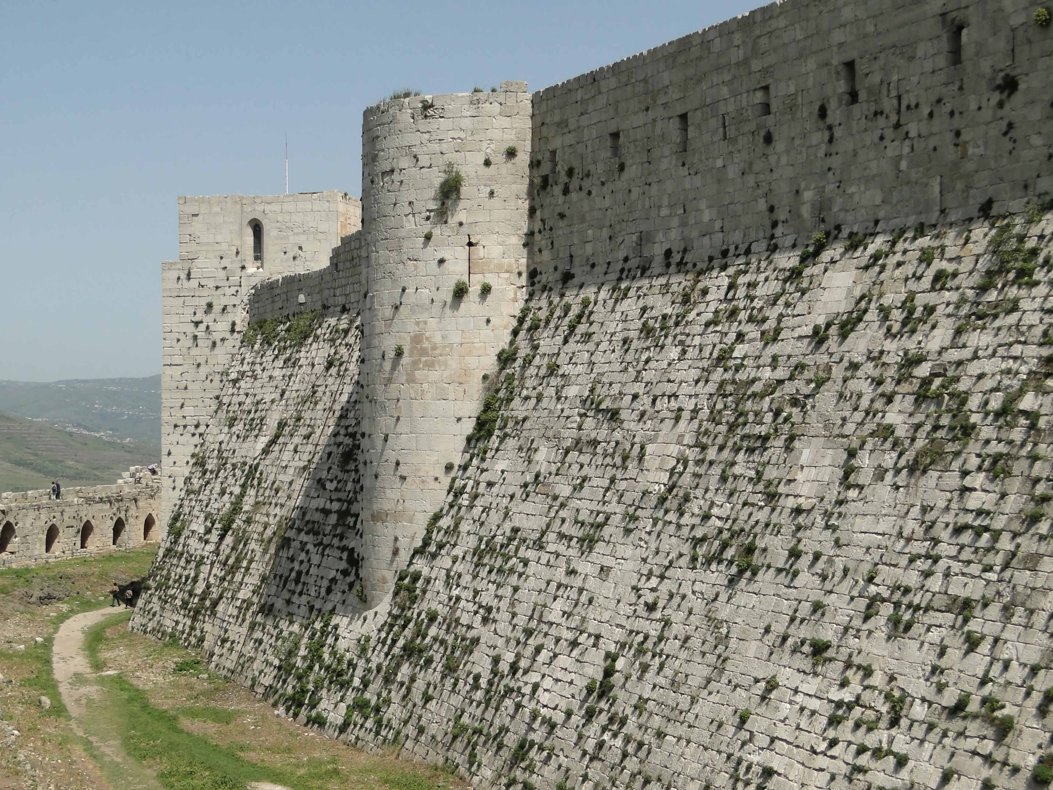 View of west side of inner wall of Krak des Chevaliers, Syria